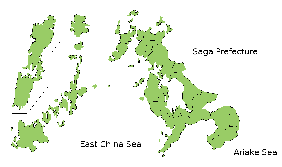 Map of Nagasaki Prefecture, Japan. Thanks to Aoki Shigenobu and [1]. Colors from Image:TokyoMapCurrent.png by User:Fg2.